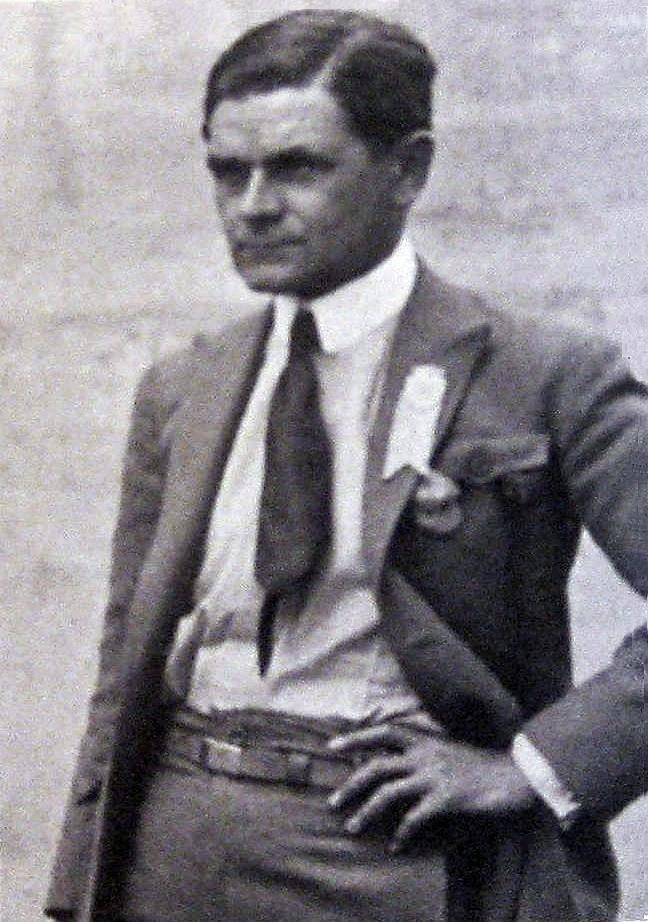 Vittorio Pozzo (March 2, 1886 in Turin, Piedmont, Italy – Ponderano (Biella) December 21, 1968) was an Italian football (soccer) coach